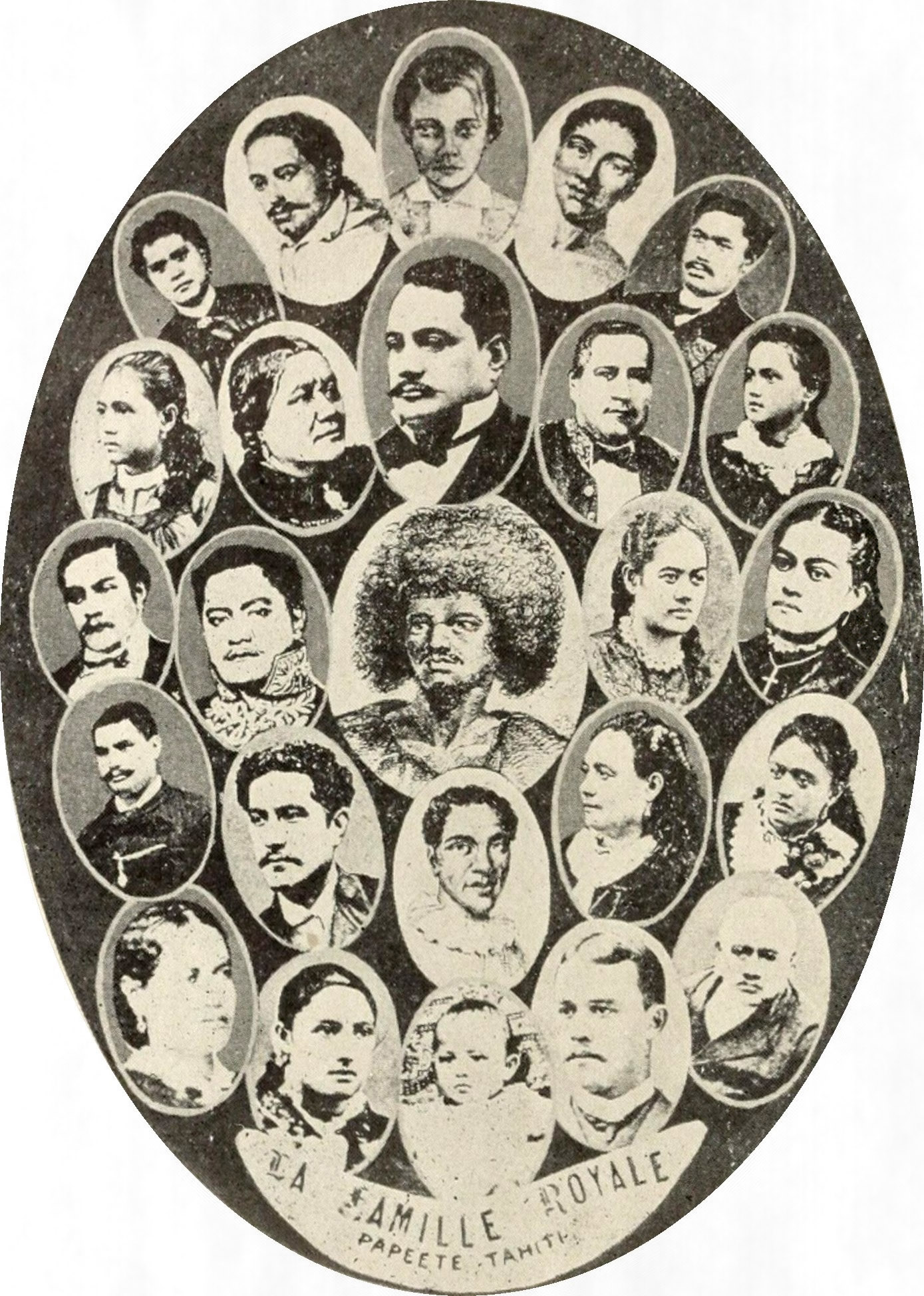 The Royal Family of Tahiti, Compiled by French photographer Madame Hoare in 1885 from earlier photographs and paintings by others and photographs taken by herself. This version is a reprint from a 1906 book.